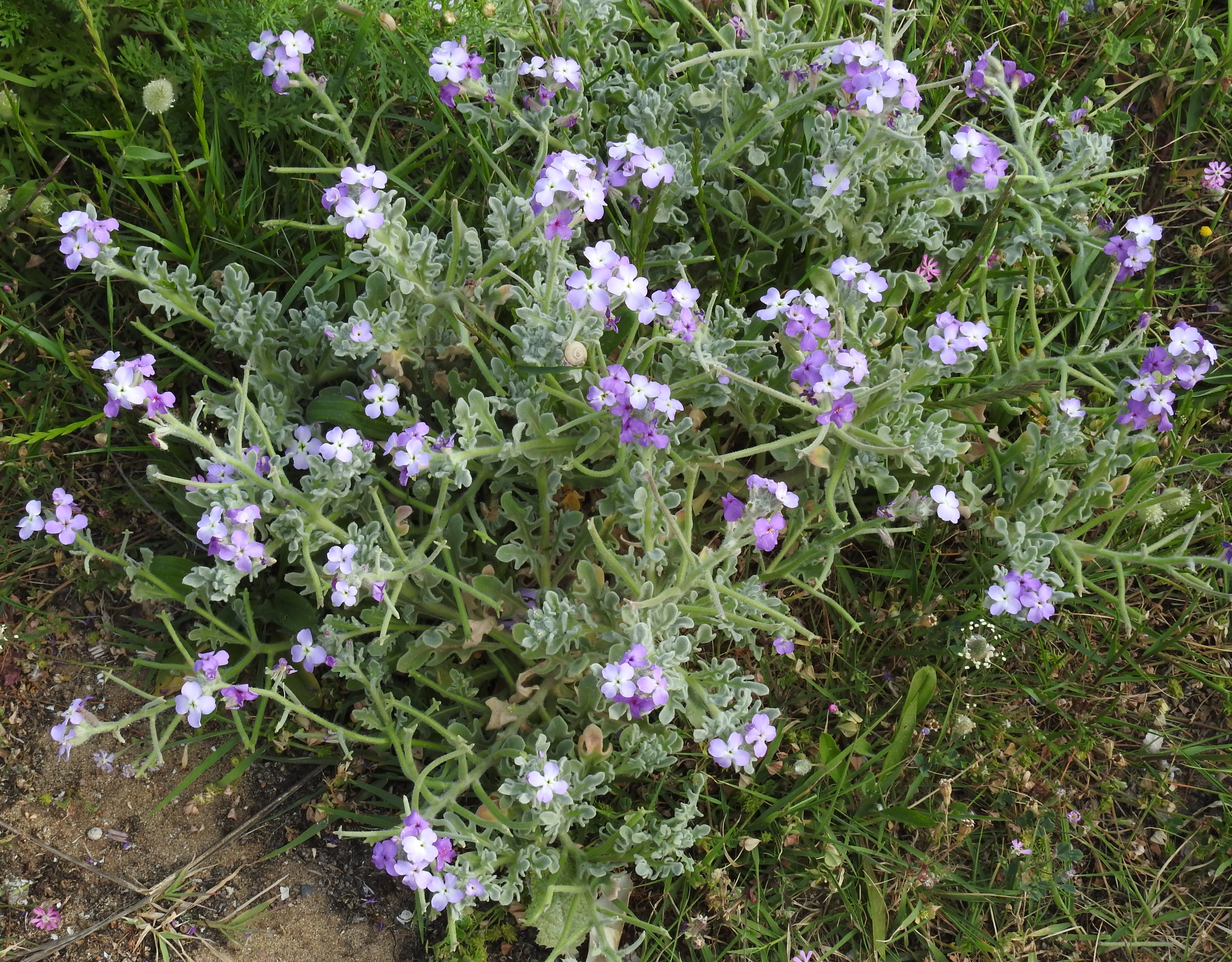 Matthiola tricuspidata near Malia, Crete, Greece